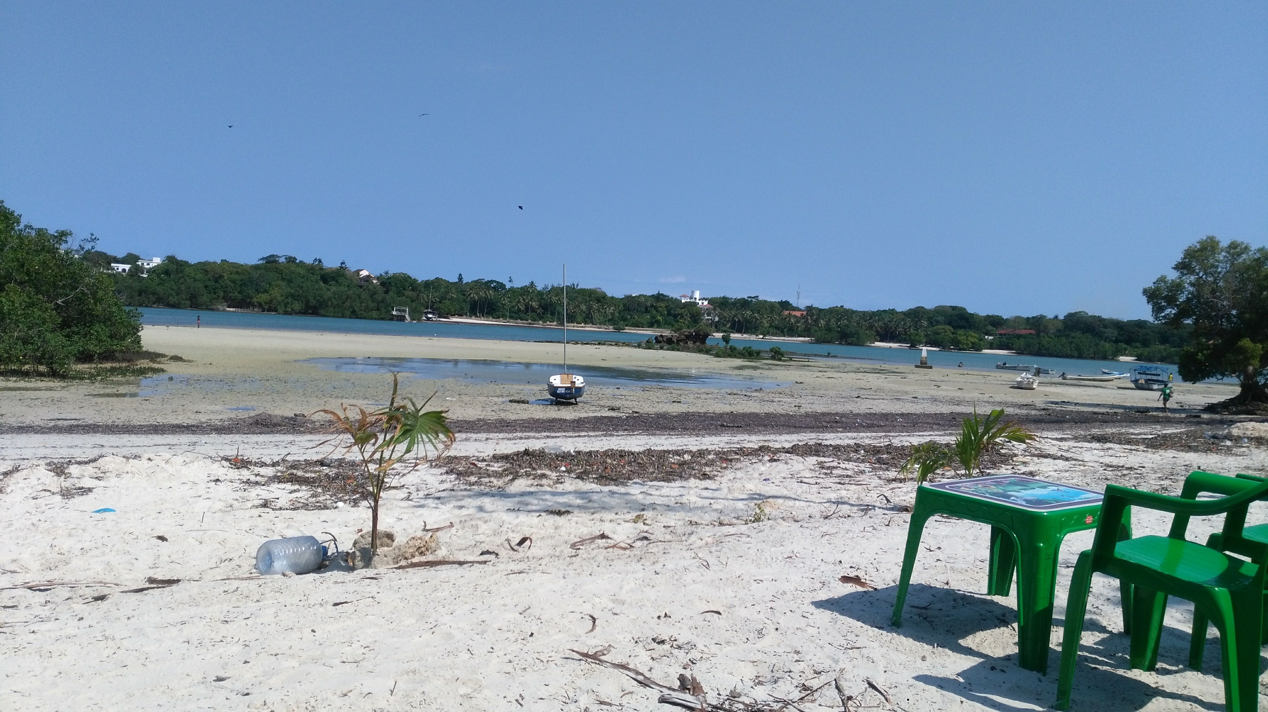 This is an image with the theme "Play" from: Kenya